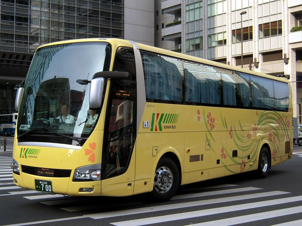 Konan bus Mitsubishi Fuso Aero Queen(LKG-MS96VP)for Highway bus "Tsugaru"(Aomori-Tokyo)